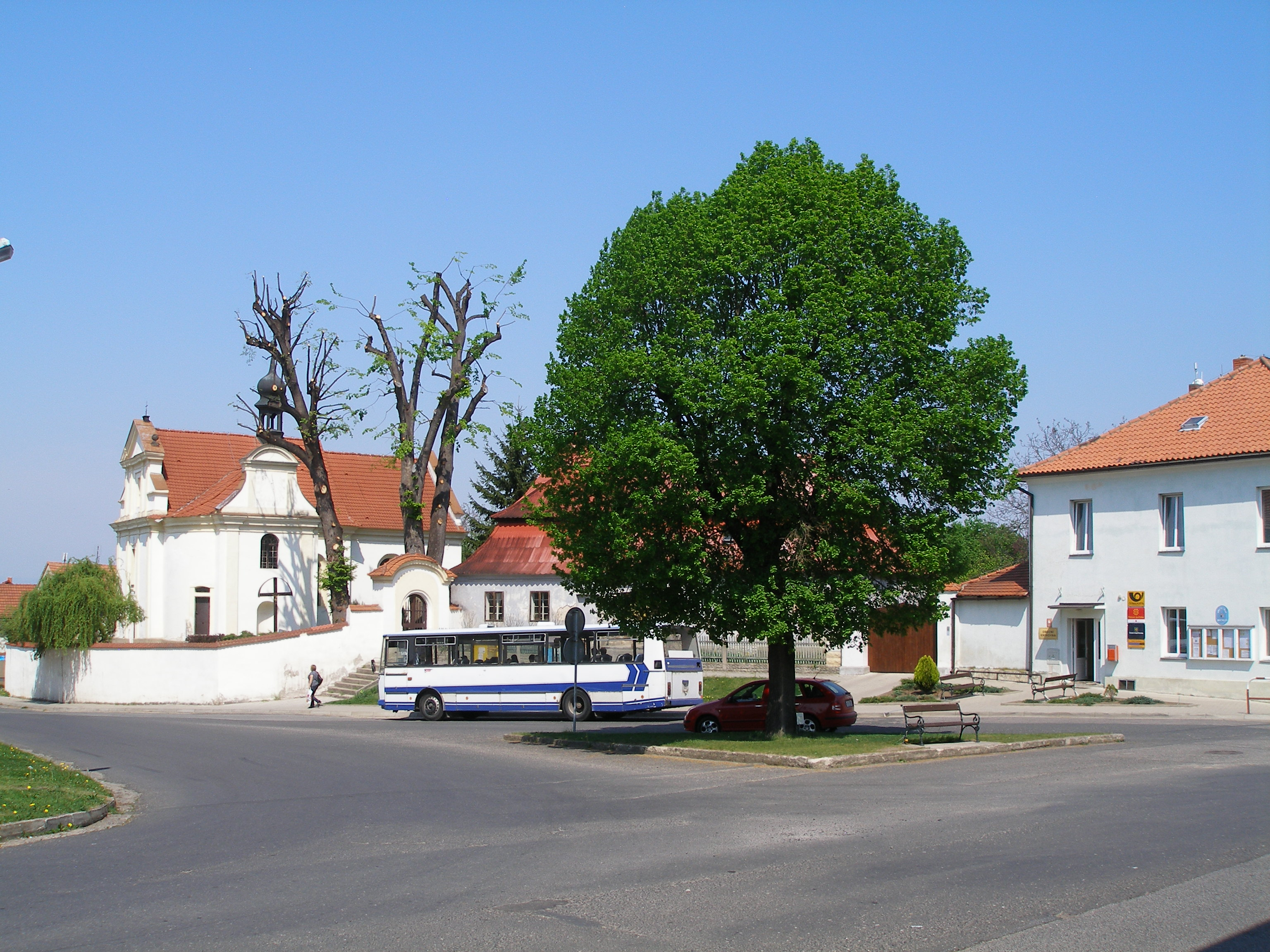 The tree in the village square Bechlín.